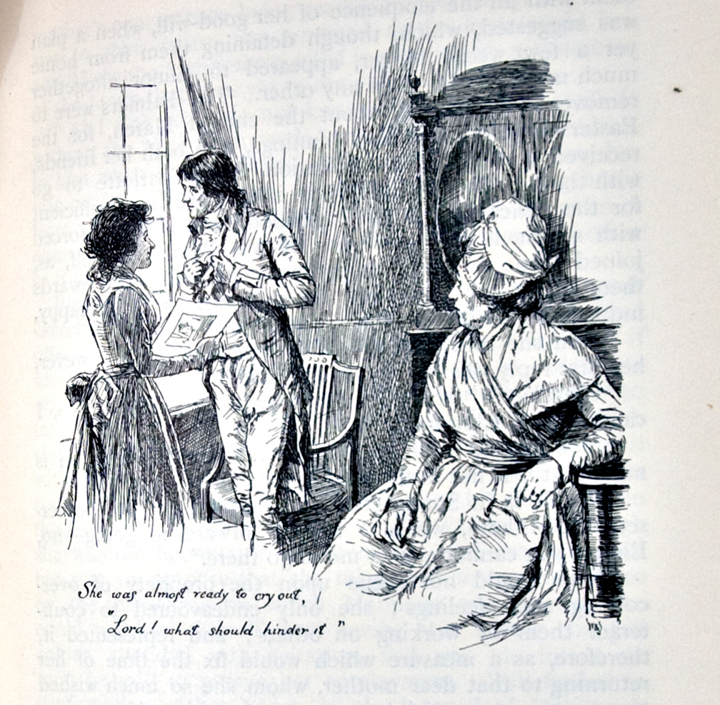 "Lord! what should hinder it?" - Mrs. Jennings overhears a conversation between Colonel Brandon and Elinor and misinterprets it. Austen, Jane. Sense and Sensibility. London: George Allen, 1899, page 285.